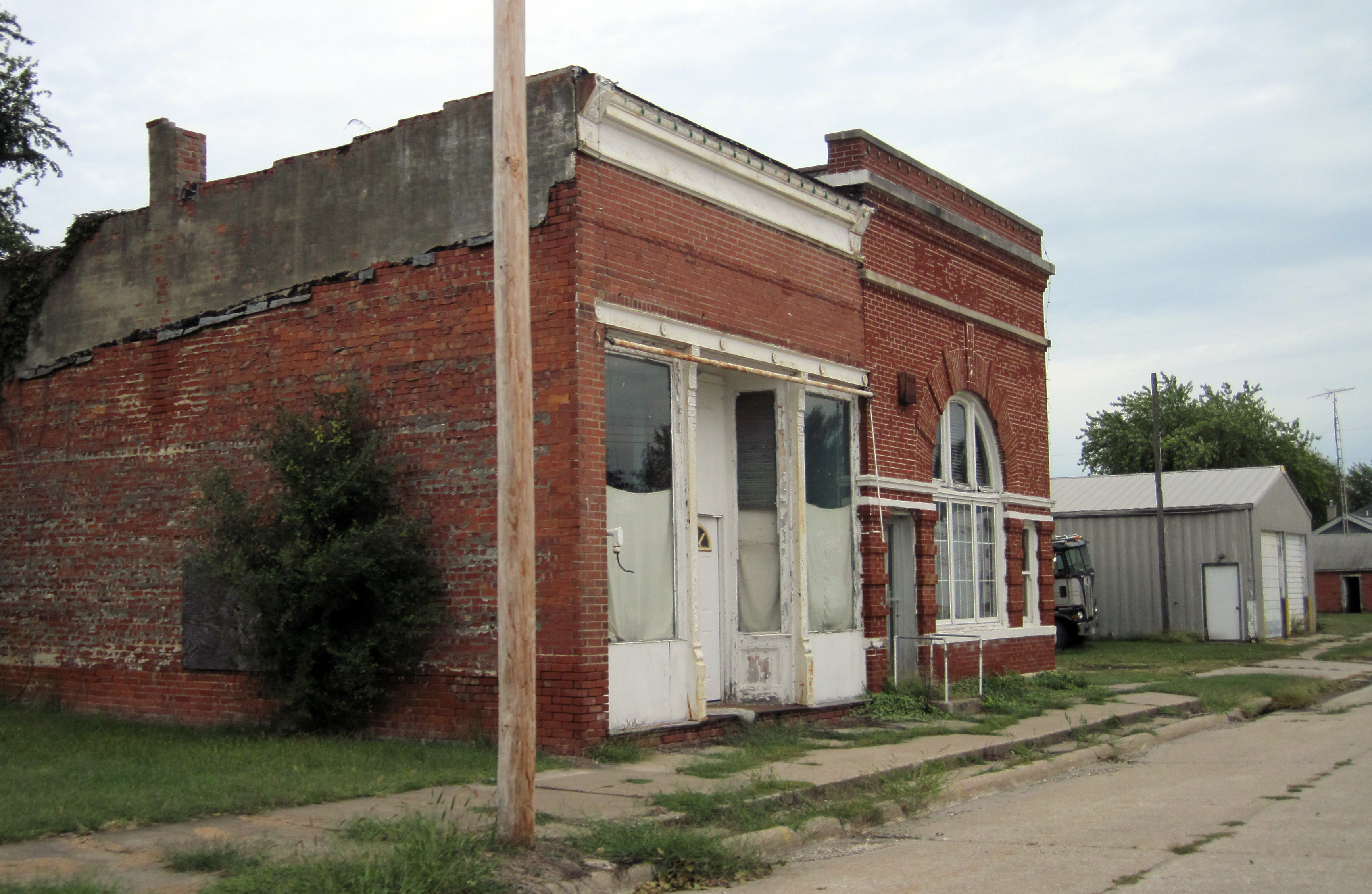 Ollie